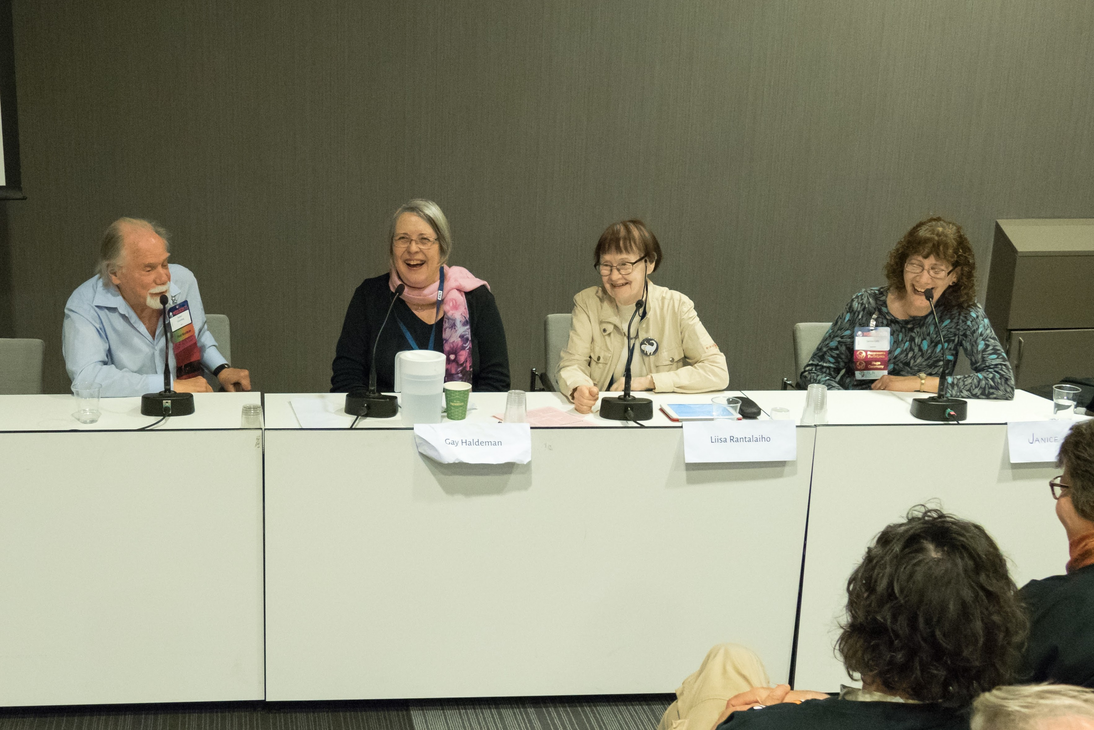 World Science Fiction Convention in Helsinki, 2017. Fandom Keeps You Young at Heart! Robert Silverberg, Gay Haldeman, Liisa Rantalaiho and Janice Gelb